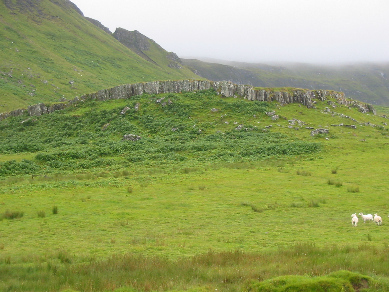 Dike, Island of Mull, Scotland